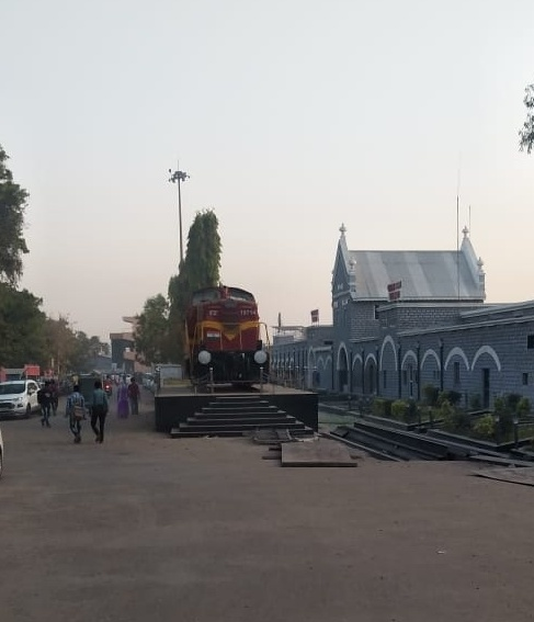 Heritage Engine at outside of Valsad station